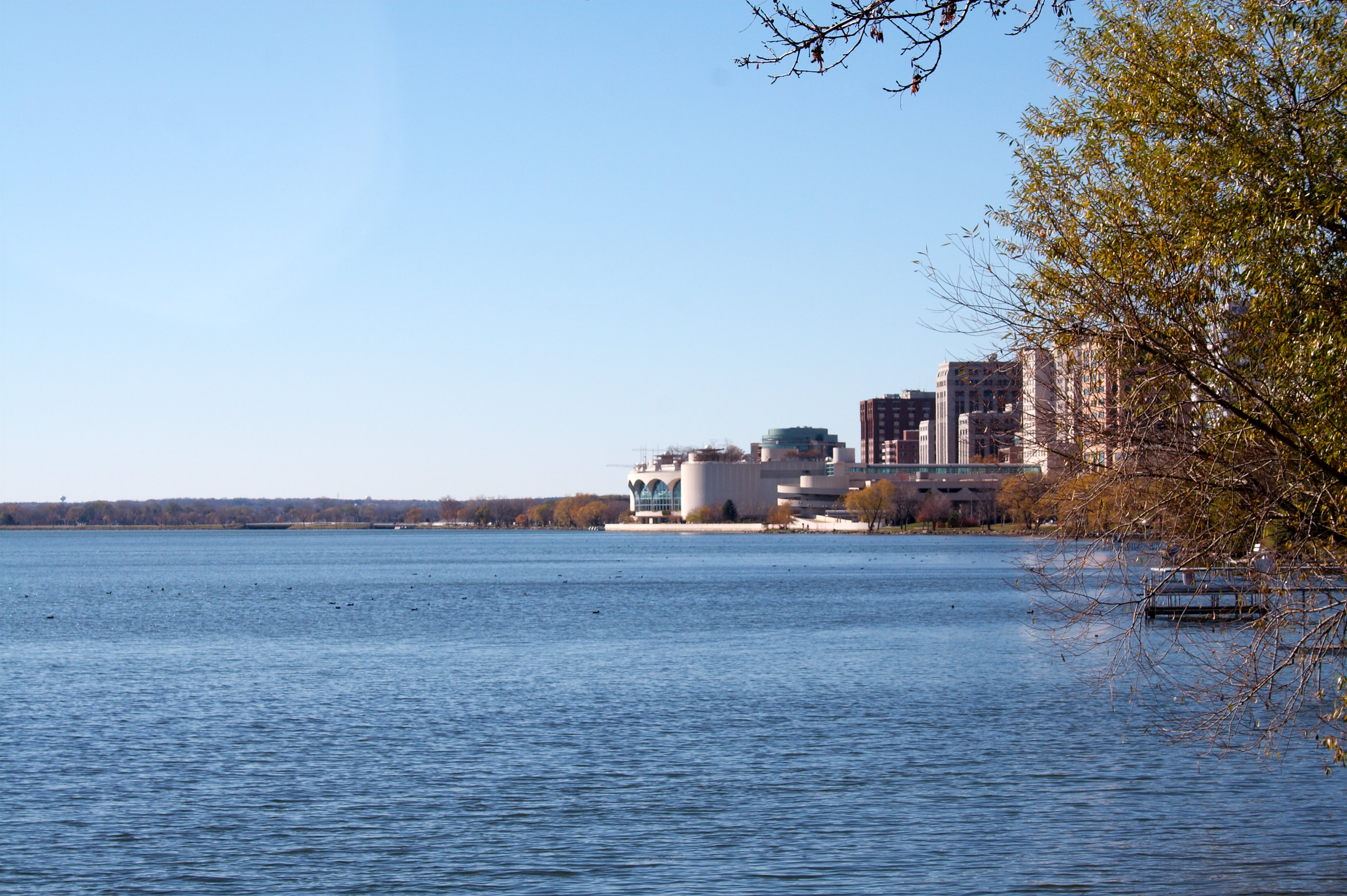 Lake Monona, in Madison, Wisconsin